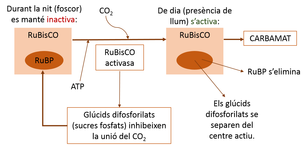 Pas de la RuBisCO d'inactiva a activa per acció de la RuBisCO activasa